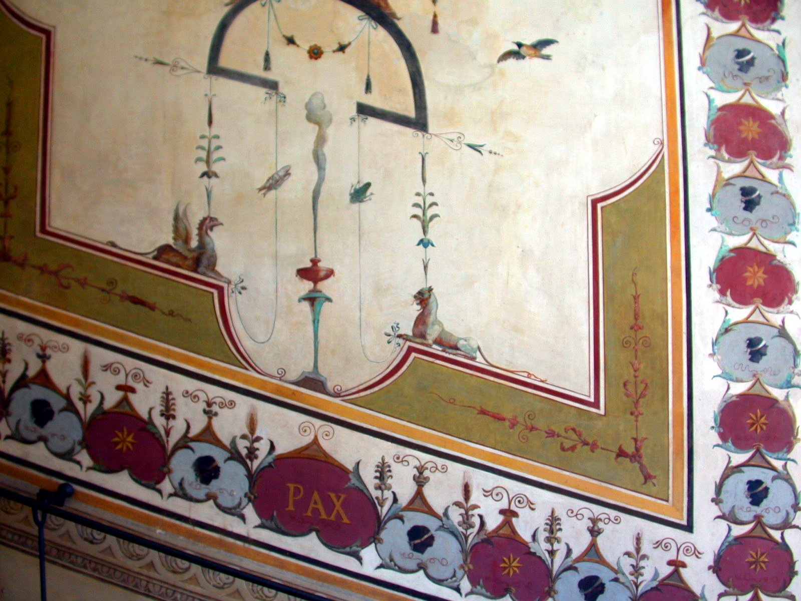 Wall ornaments by Raffael Vatican Museums Native nameMusei VaticaniLocationVatican CityCoordinates41° 54′ 23.00″ N, 12° 27′ 16.00″ E Established1506Website